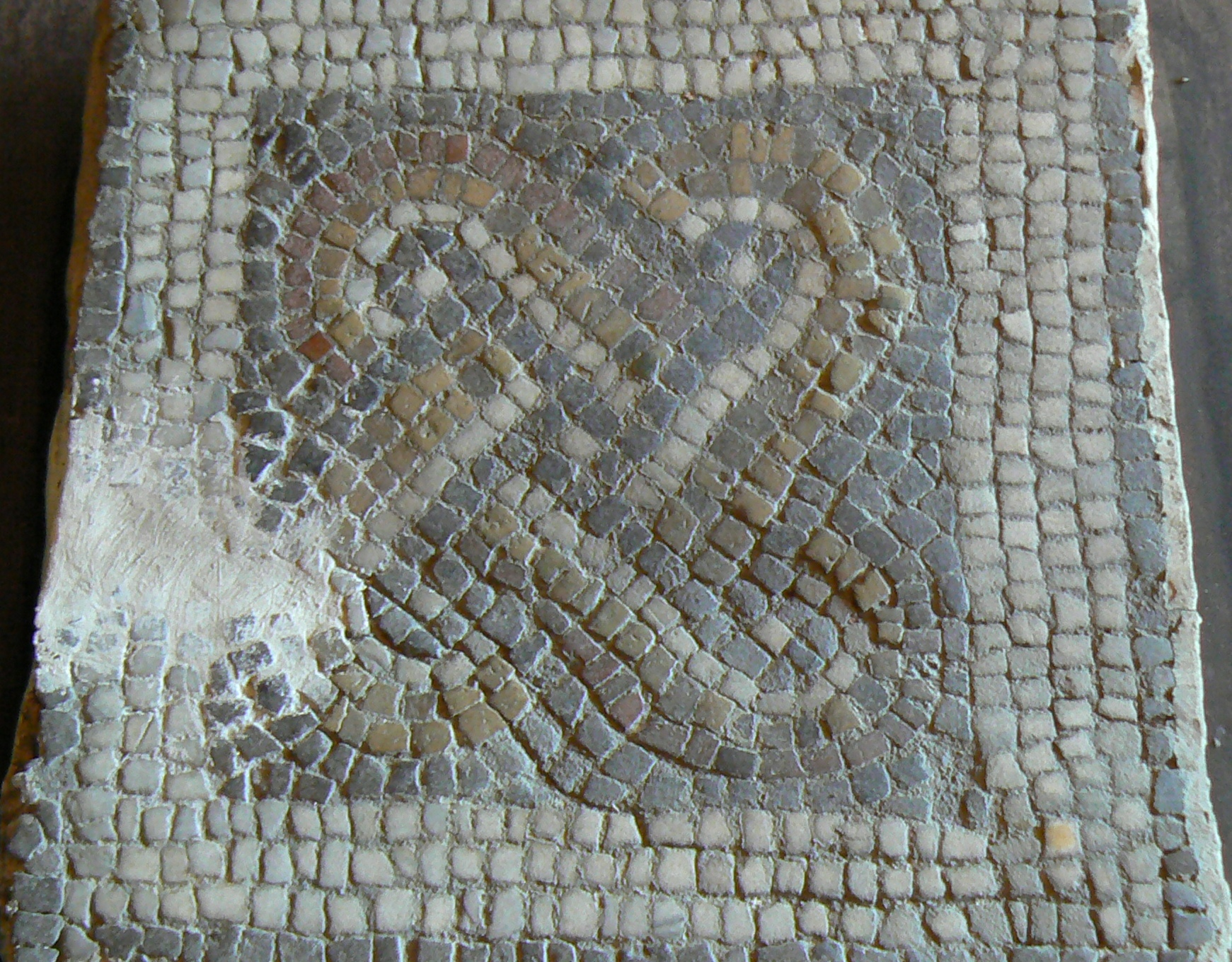 A Byzantine mosaic with a geometric pattern — in the Devnya Museum of Mosaics - in Bulgaria.